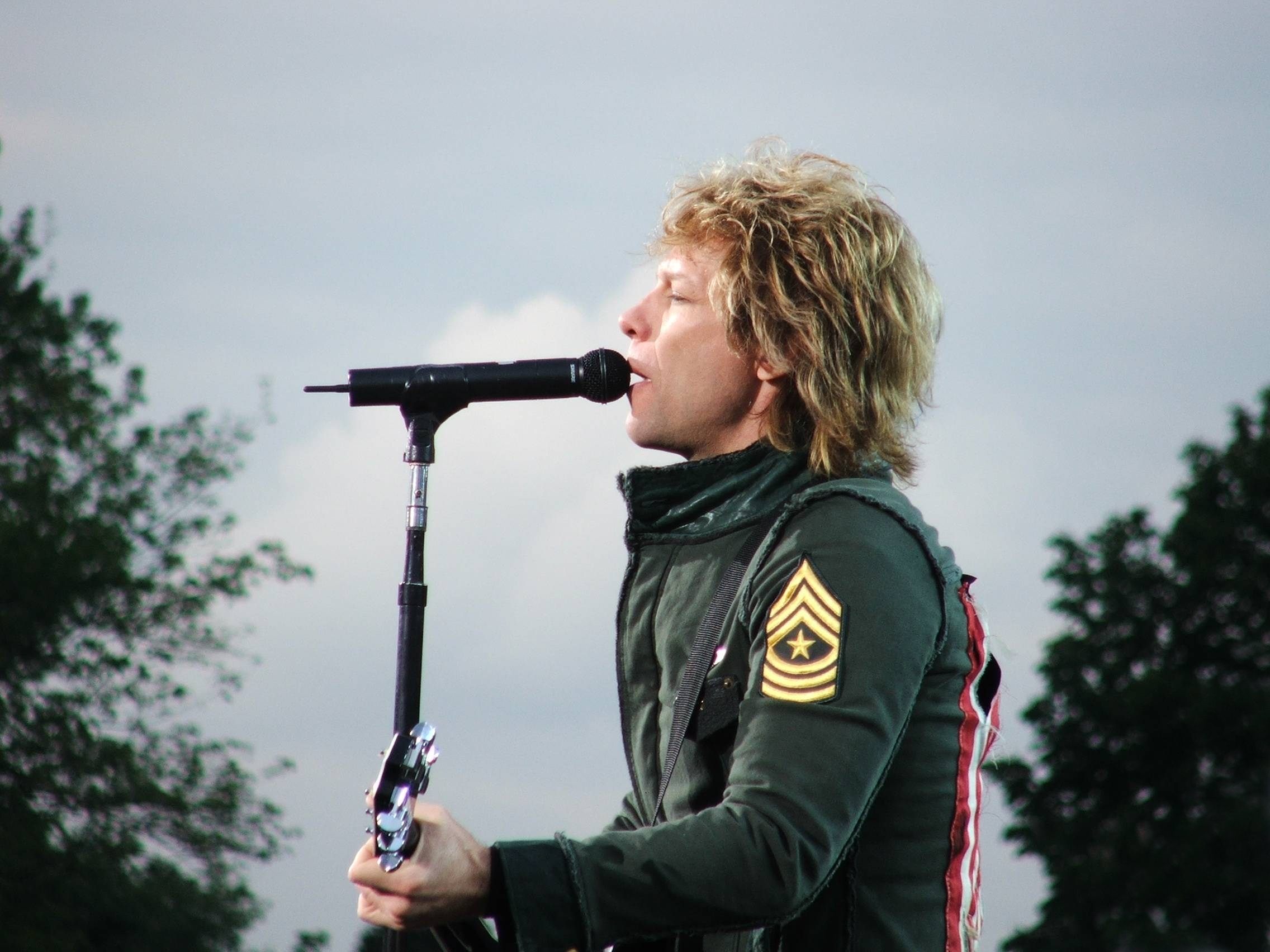 Jon Bon Jovi in concert, Nijmegen, Netherlands.